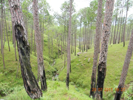 Forests in Almora over hills